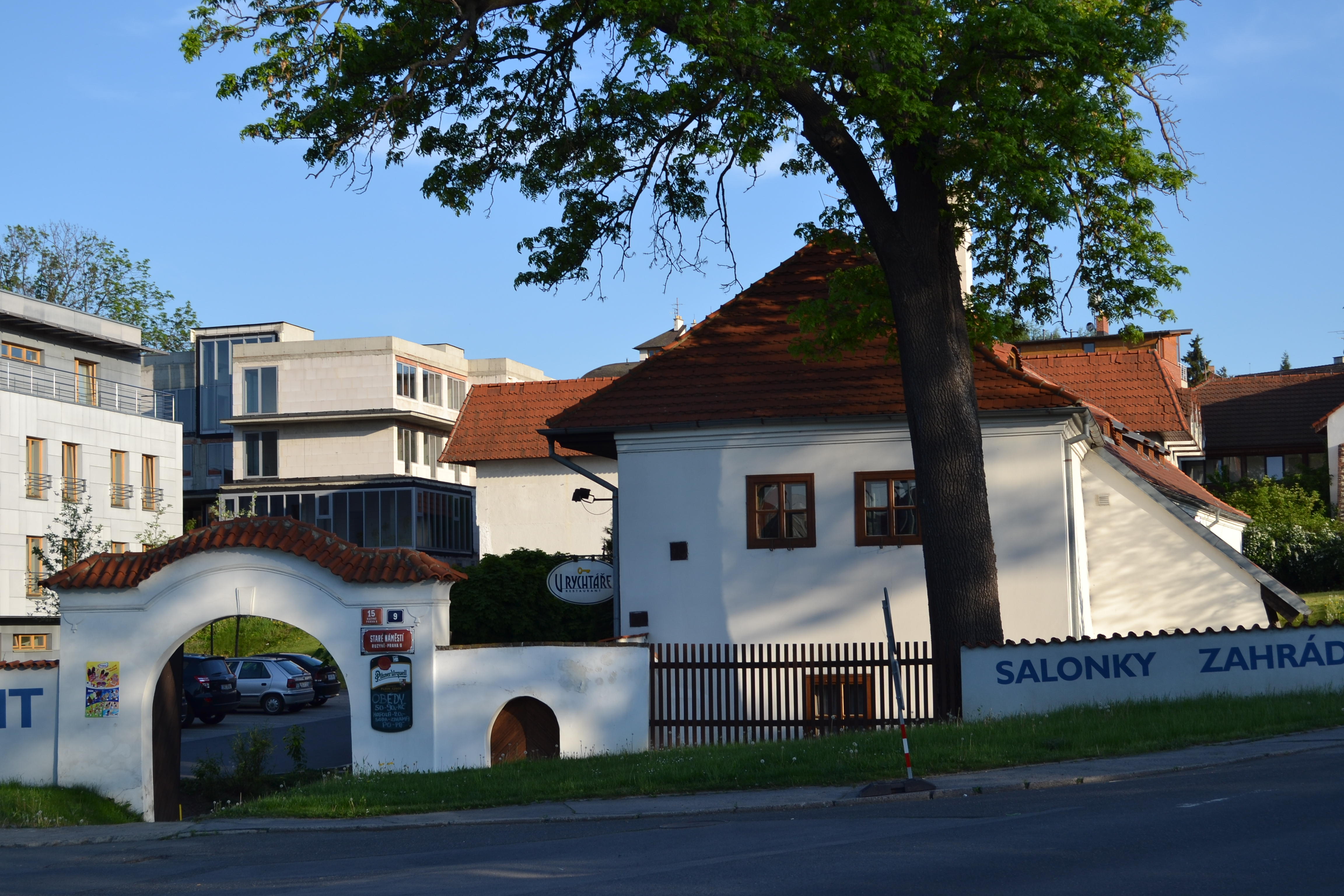 "Kubrův statek" in Prague 6